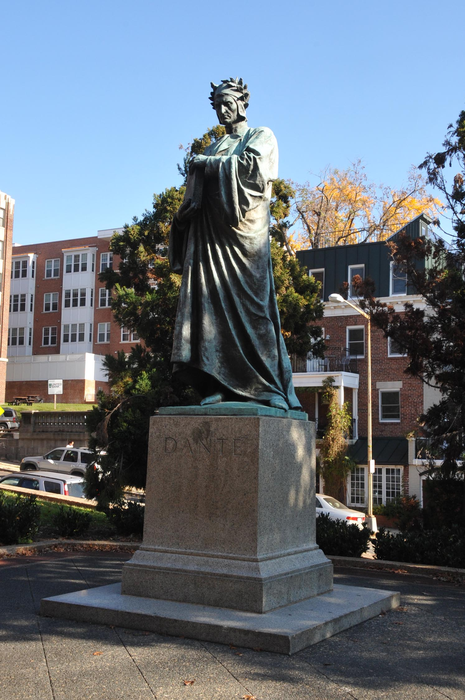 STATUE OF DANTE, THE ITALIAN RENAISSANCE WRITER; STATUE IS BY ETTORE XIMENES